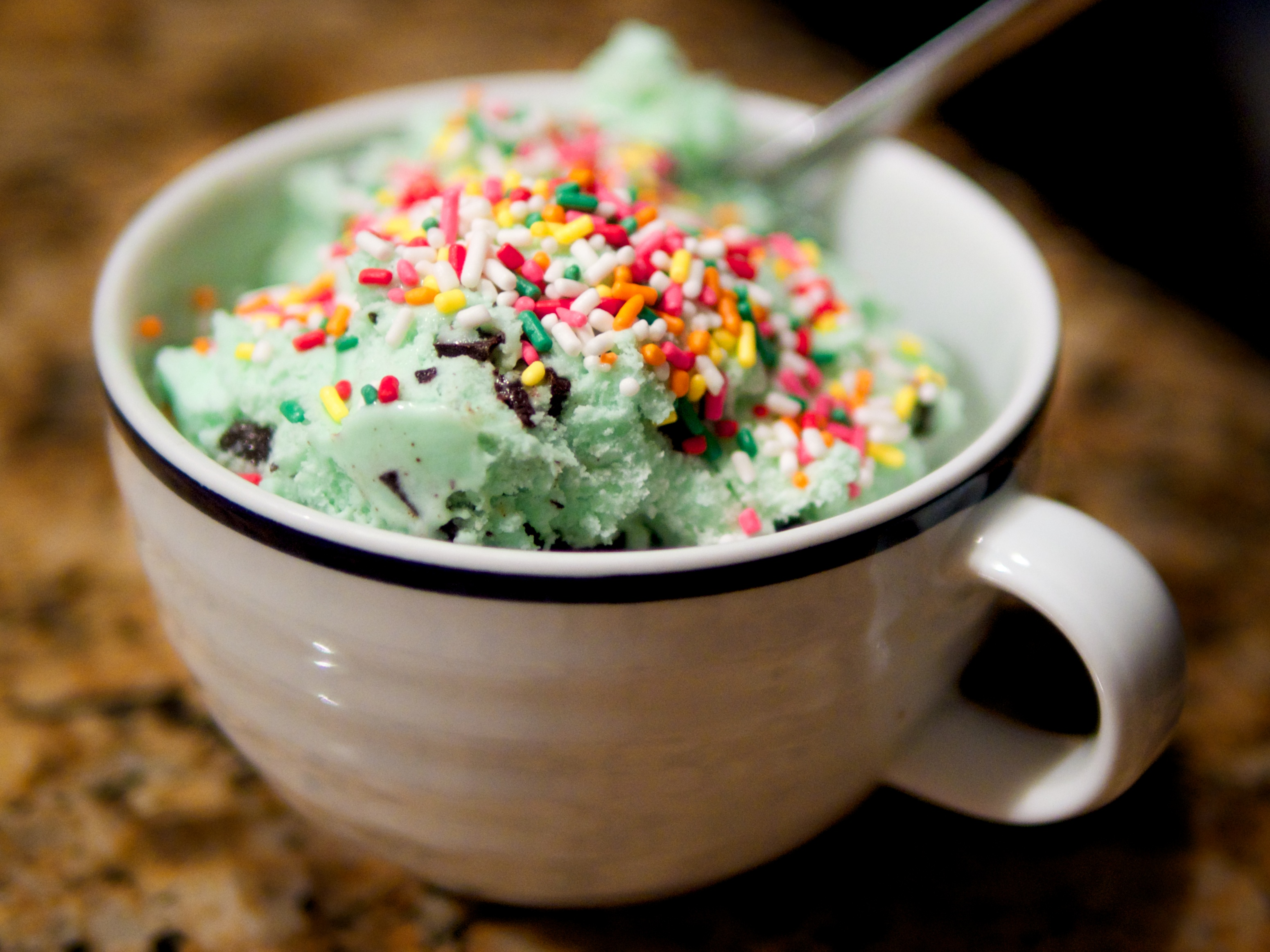 Week #10 for the group “52 of 2014” Theme: Guilty Pleasure No matter how good I am with my “diet”, I always seem to be done in by that 10pm cup of ice cream. Recently I have been adding sprinkles (which my wife ostensibly buys for my 8yr old son).